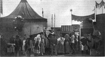 Prologue to the play Liliom